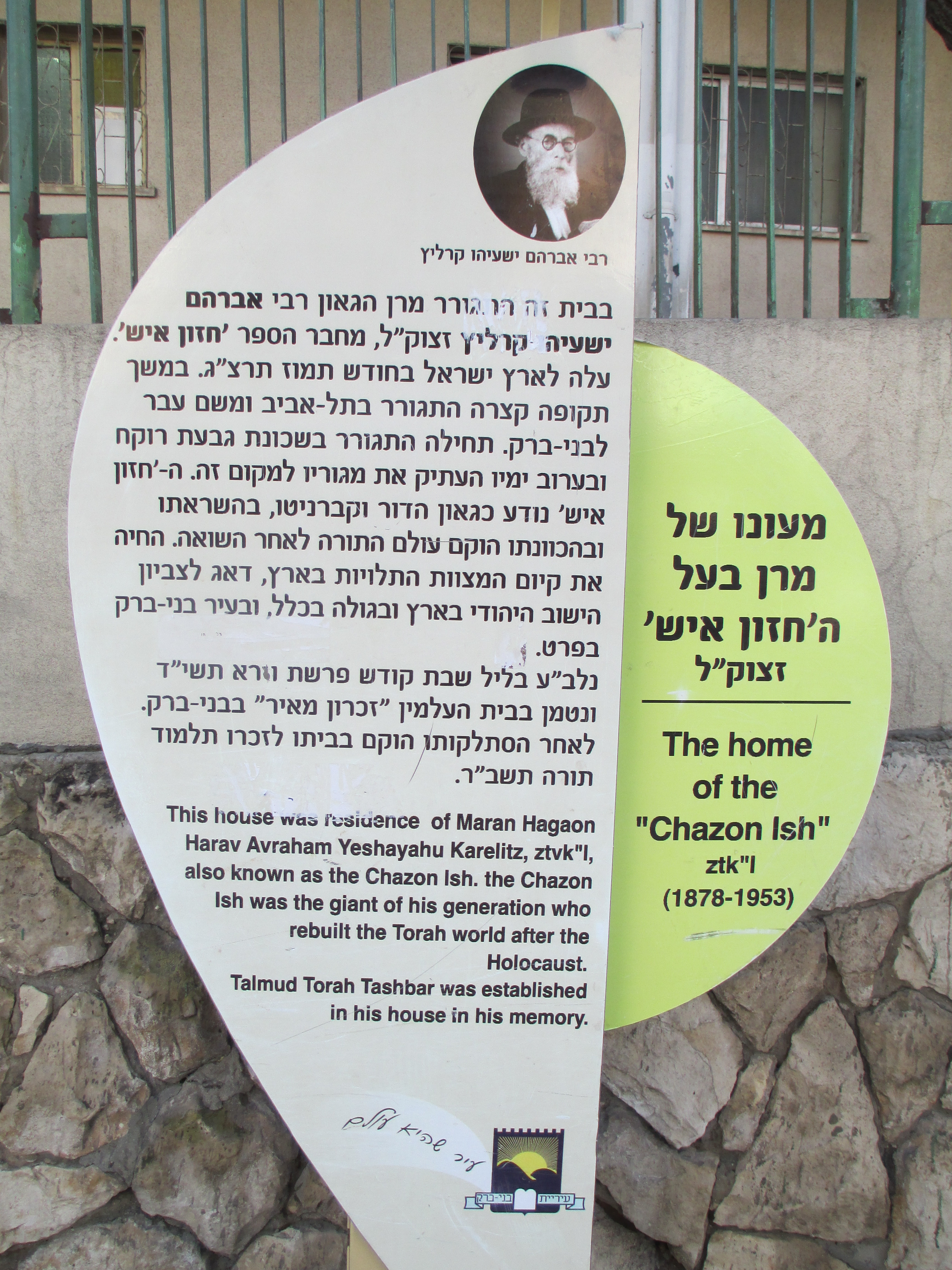 memorial plaque to rabbi chazon ish in bnei brak לוחית זיכרון ל"חזון איש" ליד ביתו ברח' חזון איש 37 בבני ברק